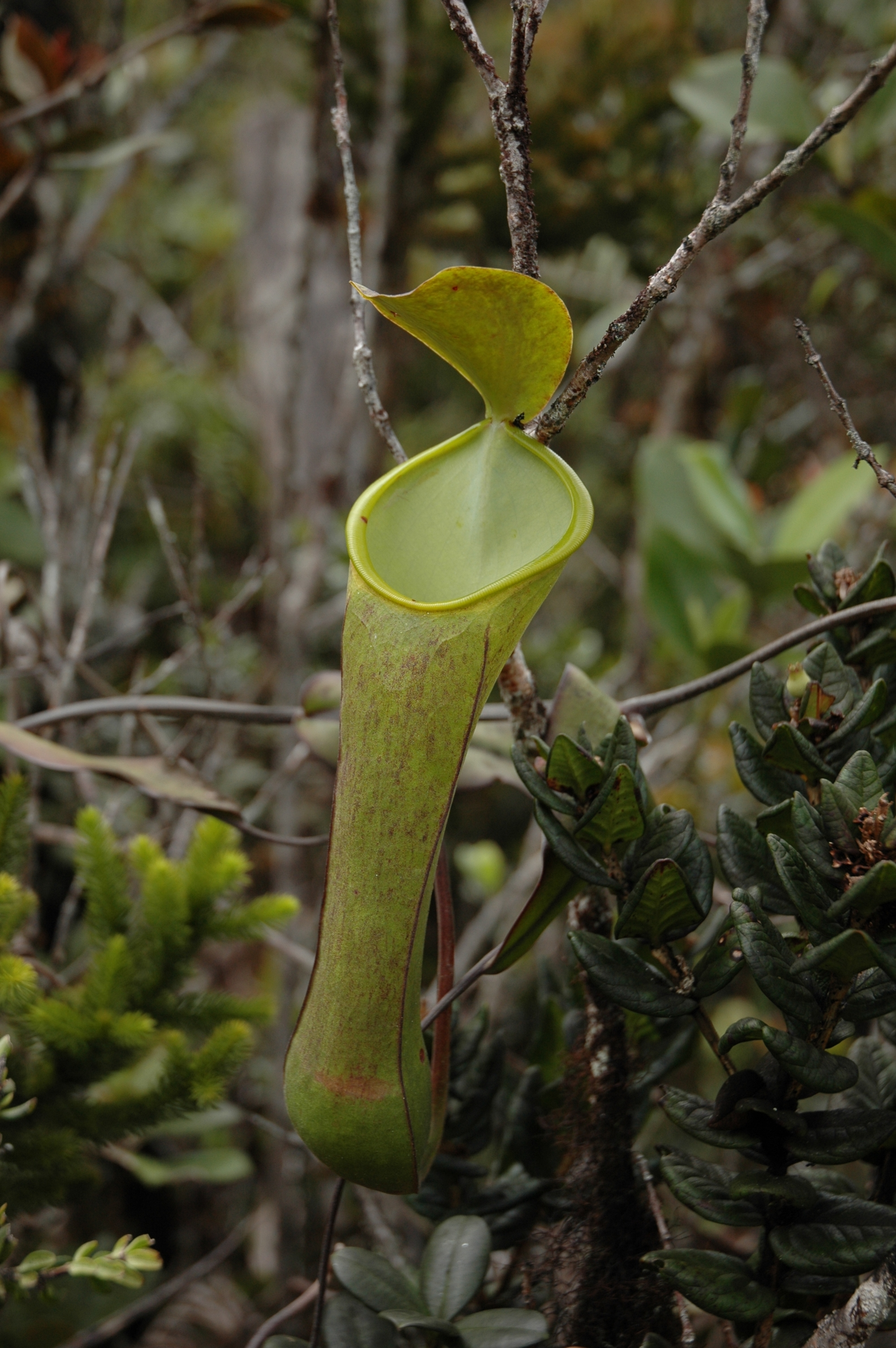 Nepenthes murudensis Gunung Murud by Jeremiah Harris